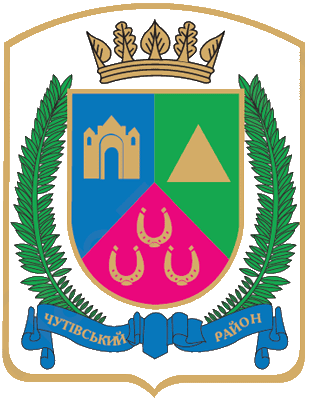 Coat of Arms of Chutivskyj raion